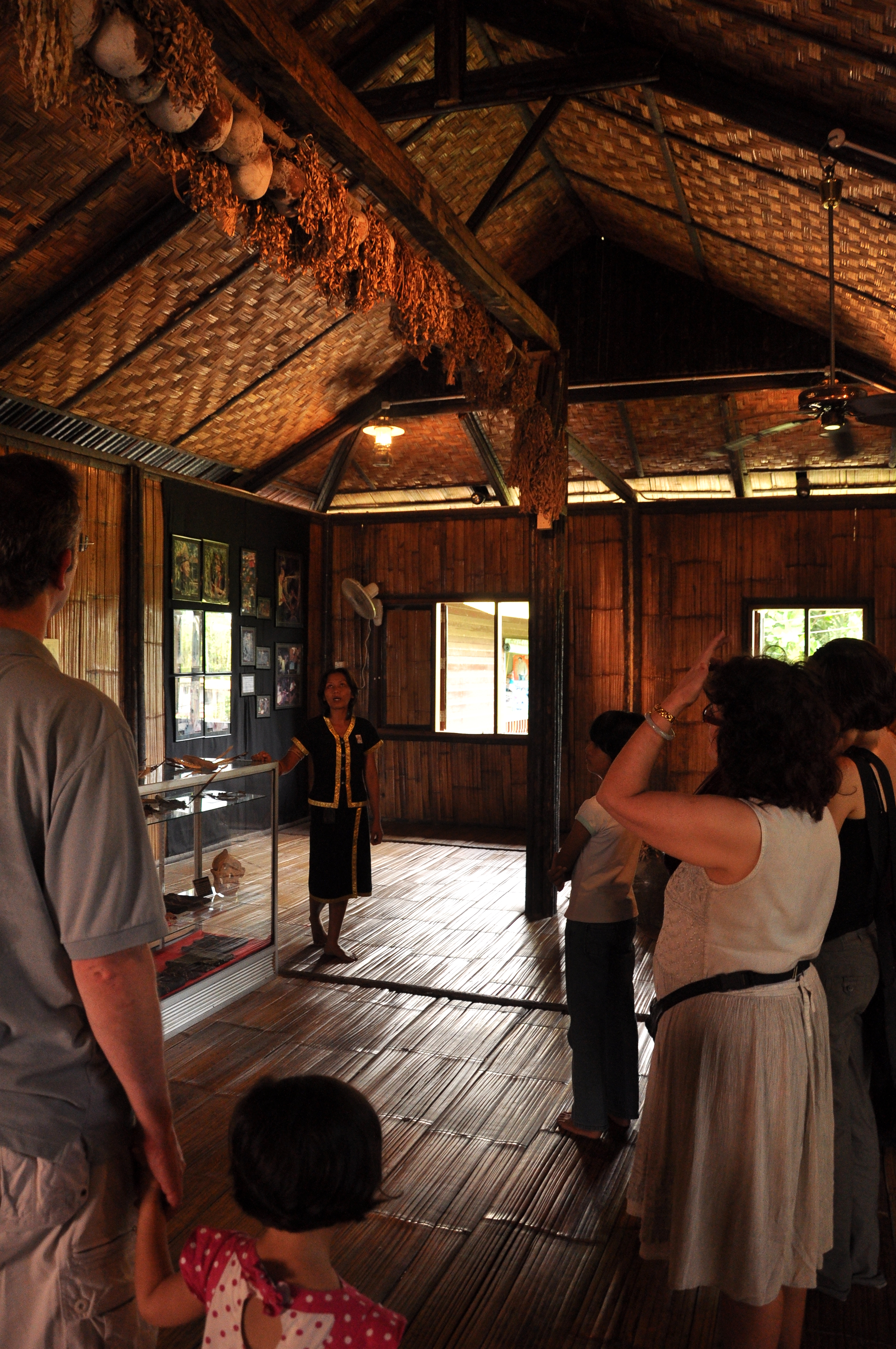 A group of people visiting "The House of Skulls" at Monsopiad Cultural Village in Penampang (near Kota Kinabalu), Sabah, Malaysia. The village is named after the Kadazan head-hunter warrior Monsopiad. The Village is run by his direct descendants (they claim), and the human skulls on display, hanging from the central beam of the ceiling of the house, are said to be the actual ones of his victims. The skulls are adorned with dried palm tree leaves.